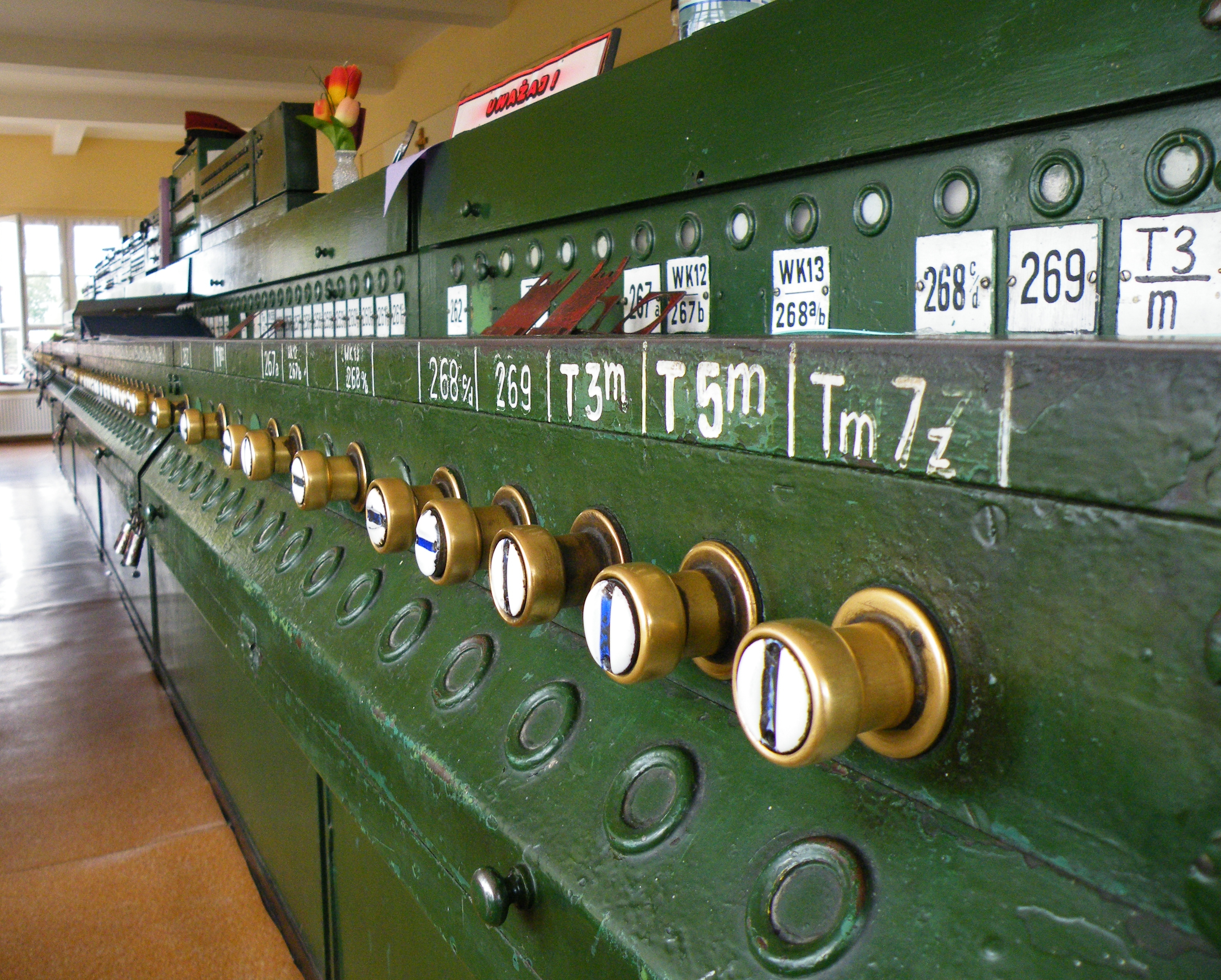 Railway points switches in signal box